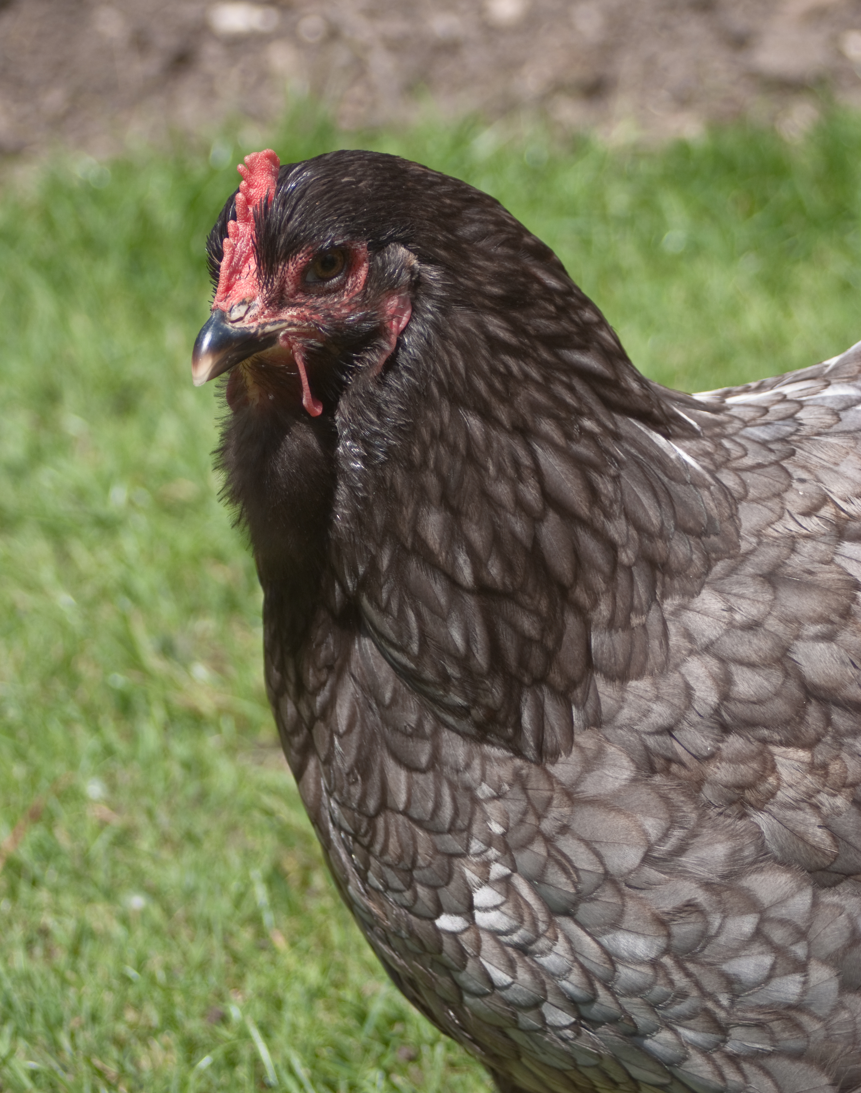 "Blue Cochin" hen, in the kitchen garden of Forde Abbey